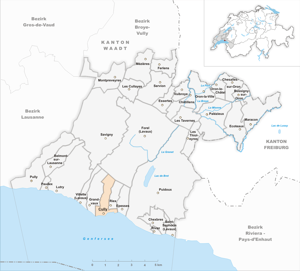 Municipality Cully